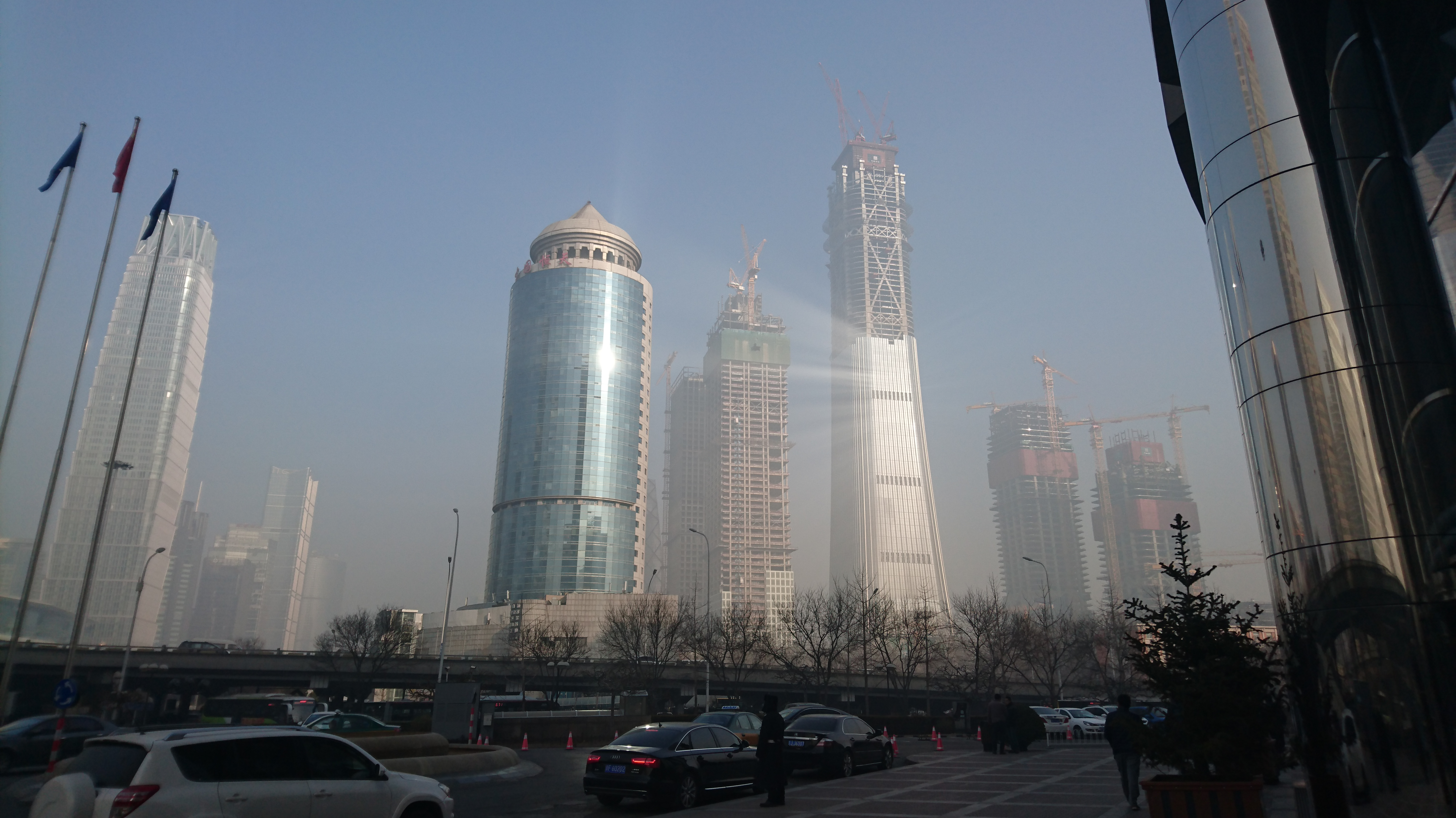 Tyndall effect caused by heavy air pollution (smog). Taken in Beijing, 2017.